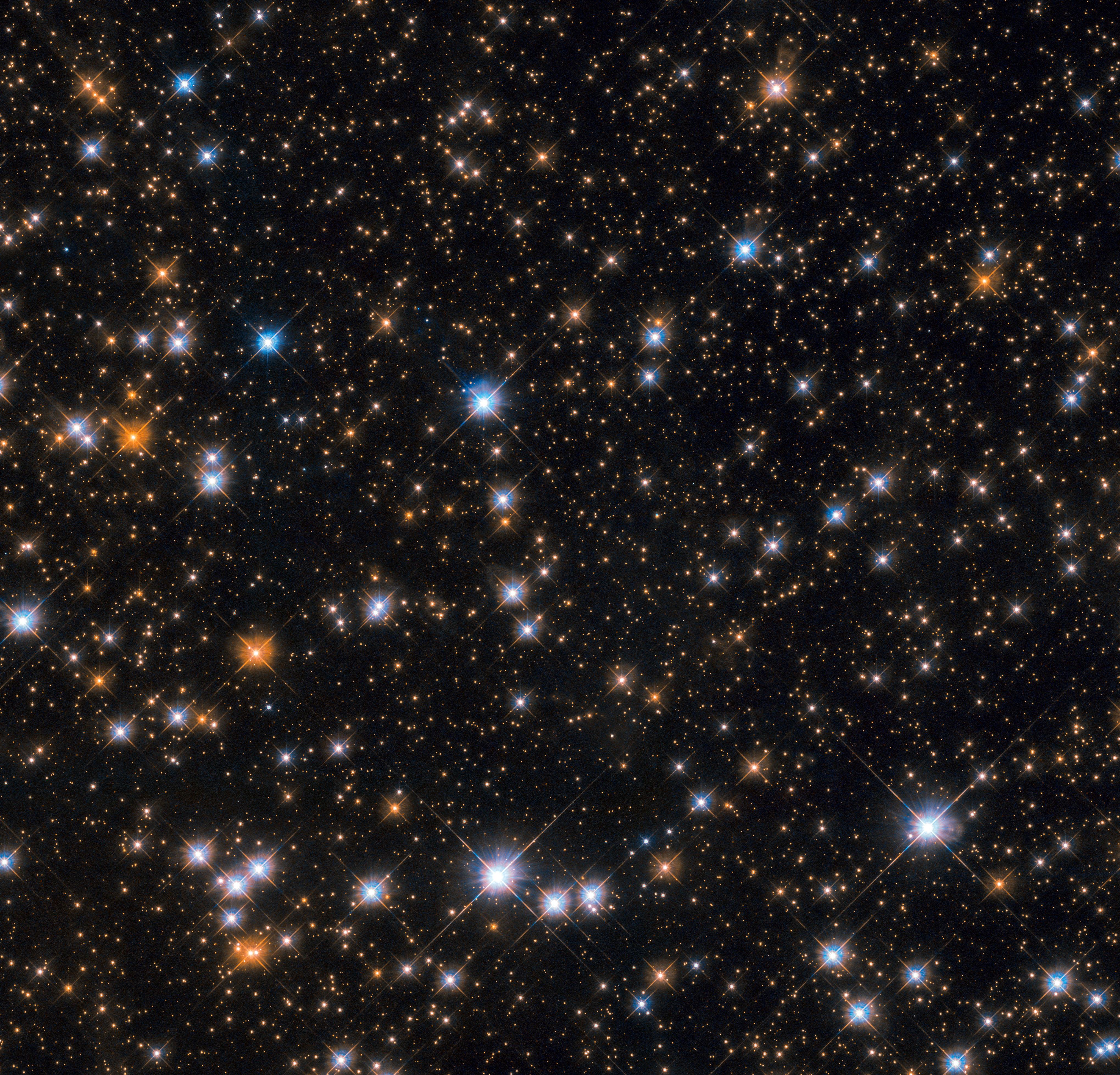 This star-studded image shows us a portion of Messier 11, an open star cluster in the southern constellation of Scutum (The Shield). Messier 11 is also known as the Wild Duck Cluster, as its brightest stars form a “V” shape that somewhat resembles a flock of ducks in flight. Messier 11 is one of the richest and most compact open clusters currently known. By investigating the brightest, hottest main sequence stars in the cluster astronomers estimate that it formed roughly 220 million years ago. Open clusters tend to contain fewer and younger stars than their more compact globular cousins, and Messier 11 is no exception: at its centre lie many blue stars, the hottest and youngest of the cluster’s few thousand stellar residents. The lifespans of open clusters are also relatively short compared to those of globular ones; stars in open clusters are spread further apart and are thus not as strongly bound to each other by gravity, causing them to be more easily and quickly drawn away by stronger gravitational forces. As a result Messier 11 is likely to disperse in a few million years as its members are ejected one by one, pulled away by other celestial objects in the vicinity.